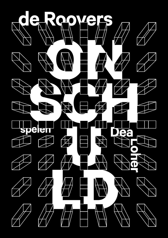 Poster designed by Tom Hautekiet for theatre production "Onschuld" (Dea Loher) by De Roovers, 2017